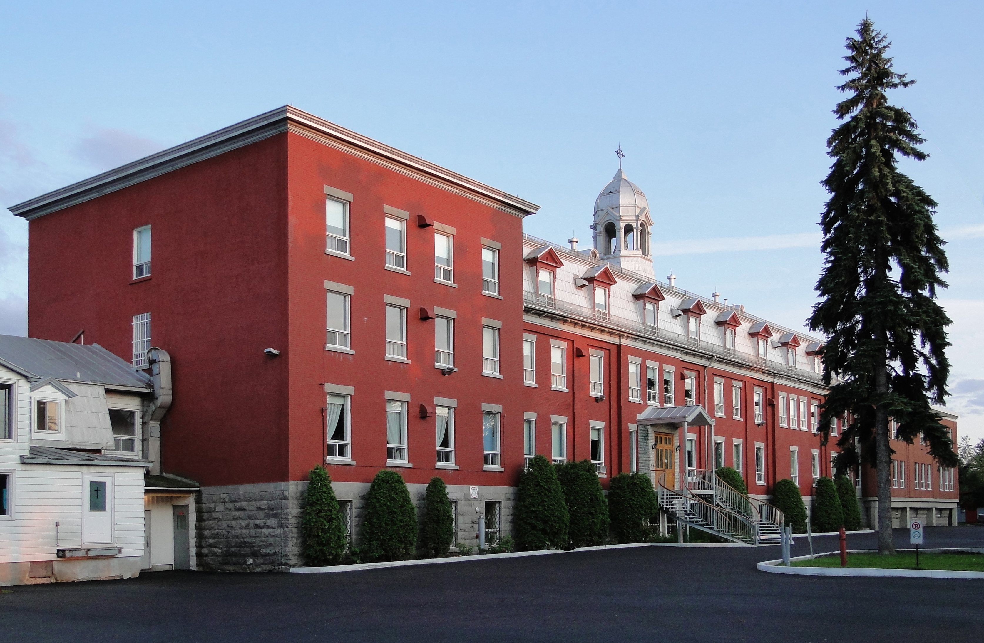 Saint-Paul College (1854), Varennes, province of Quebec, Canada